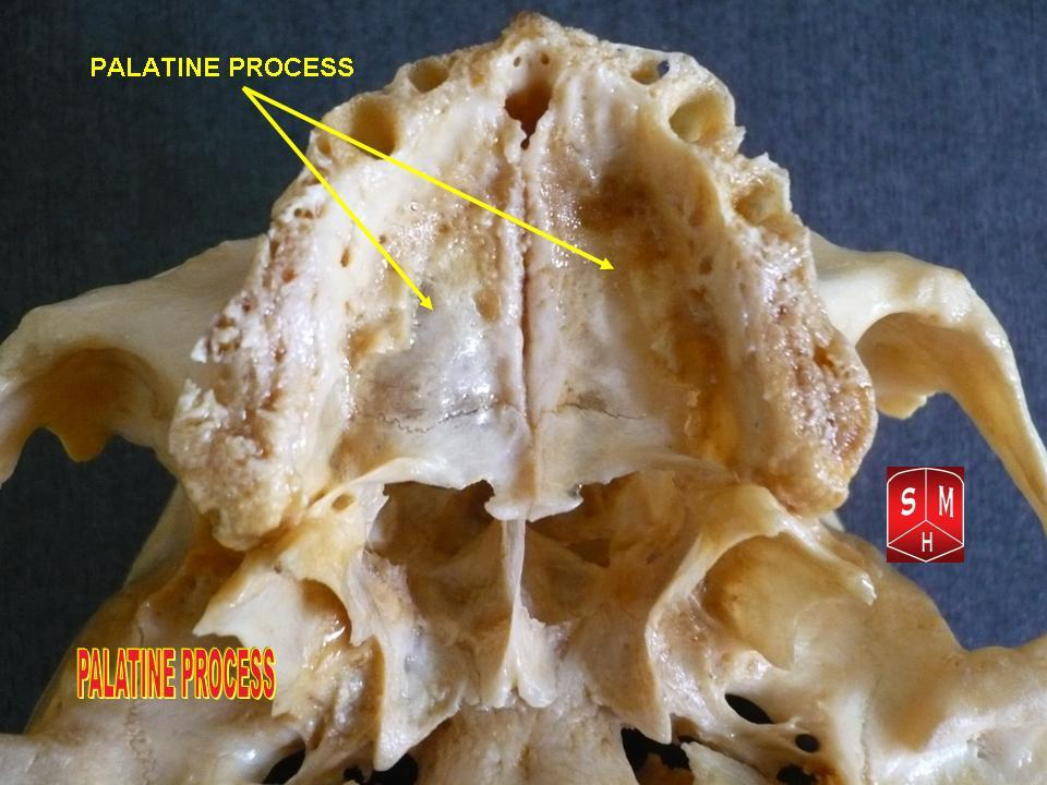 Anatomical preparation